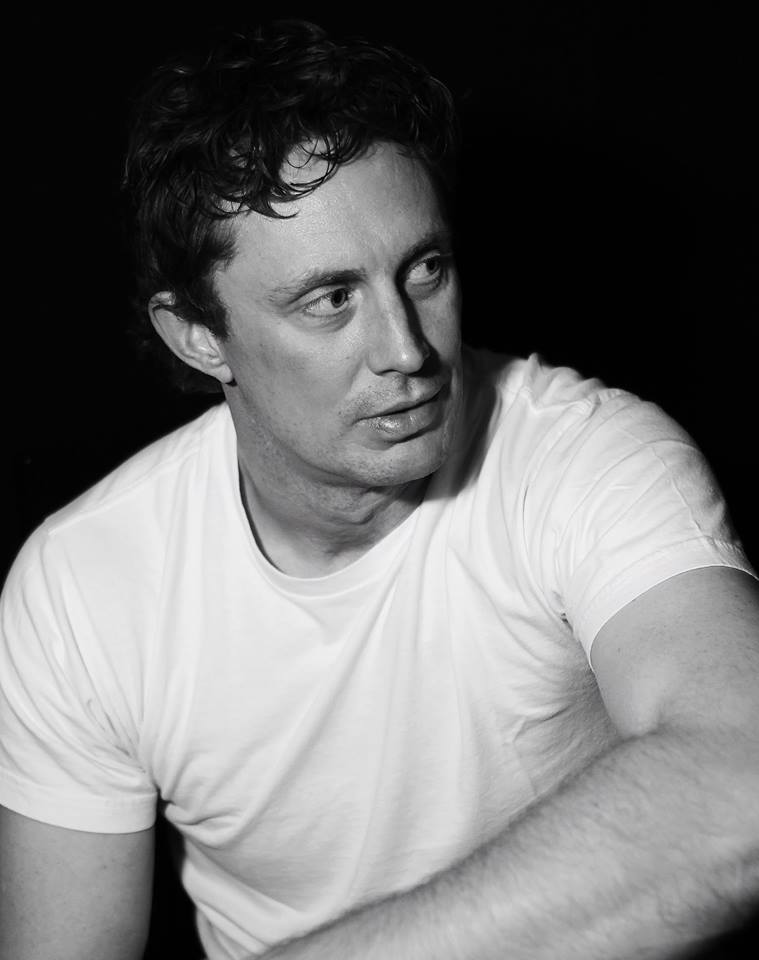 Daniel Hart Donoghue